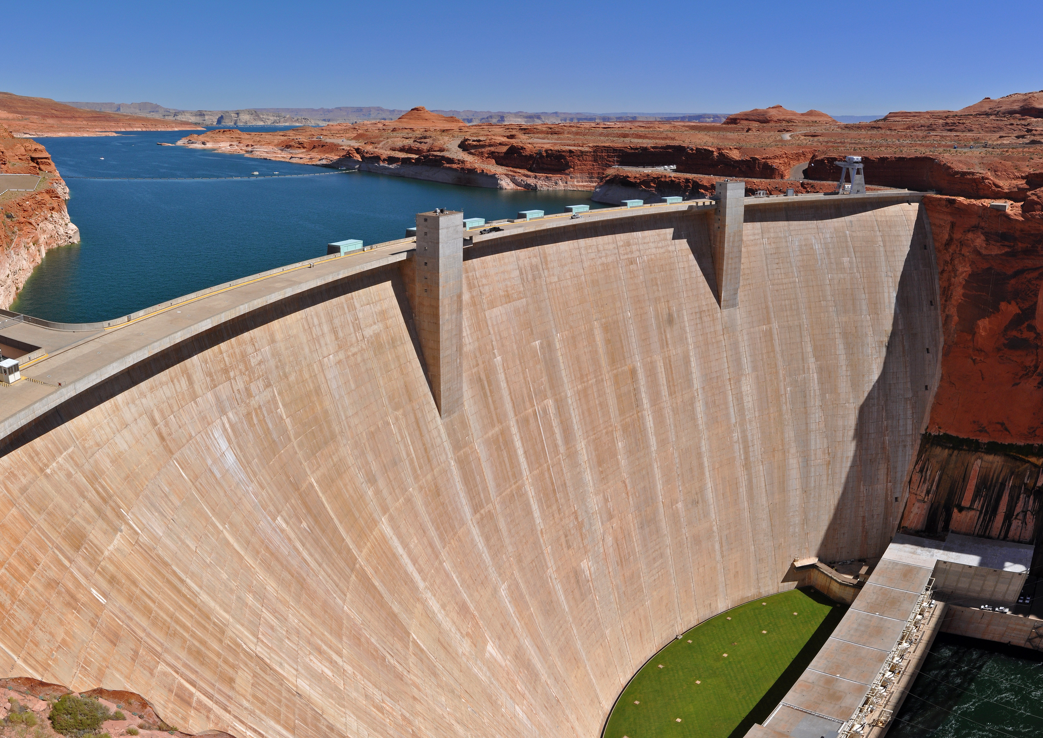 Diga del Glen Canyon che forma il Lake Powell